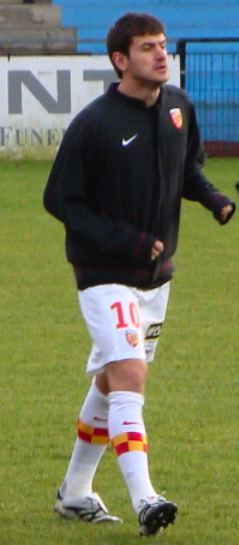 Dejan Milovanovic (RC Lens)